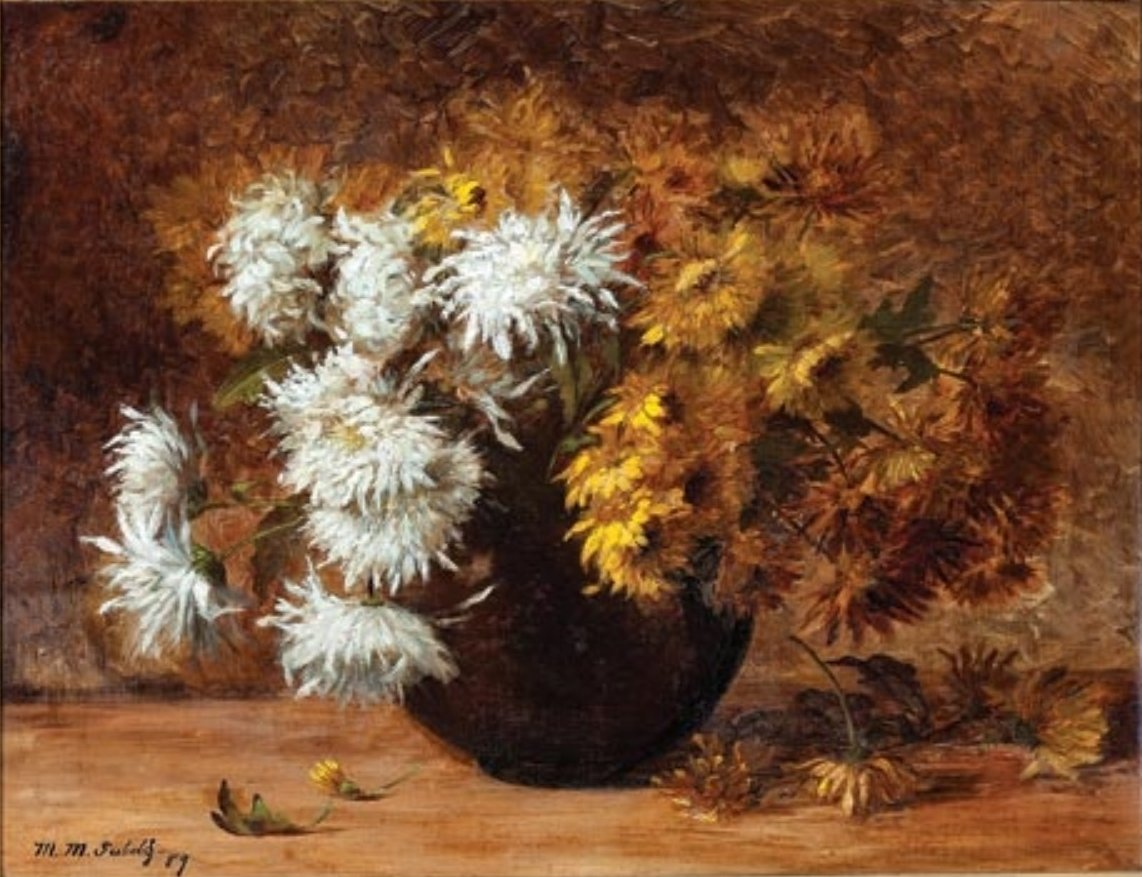 Still Life of Chrysanthemums in Vase by Marie Madeleine Seebold Molinary, 1889, oil on canvas, 20 x 26 in